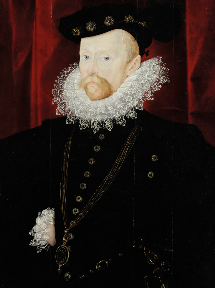 Portrait of Amias Paulet|Sir Amyas or Amias Paulet, (c. 1533-1588), English diplomat, oil on French oak panel, Rothschild Family collection.